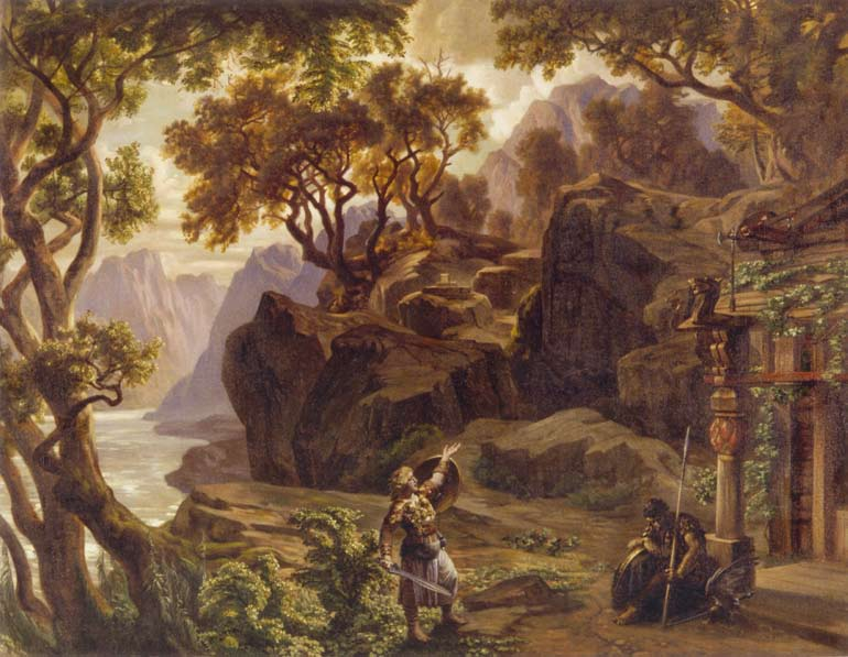 Siegfried returns to the Hall of the Gibichungs in act 2, scene 1 of Götterdämmerung.